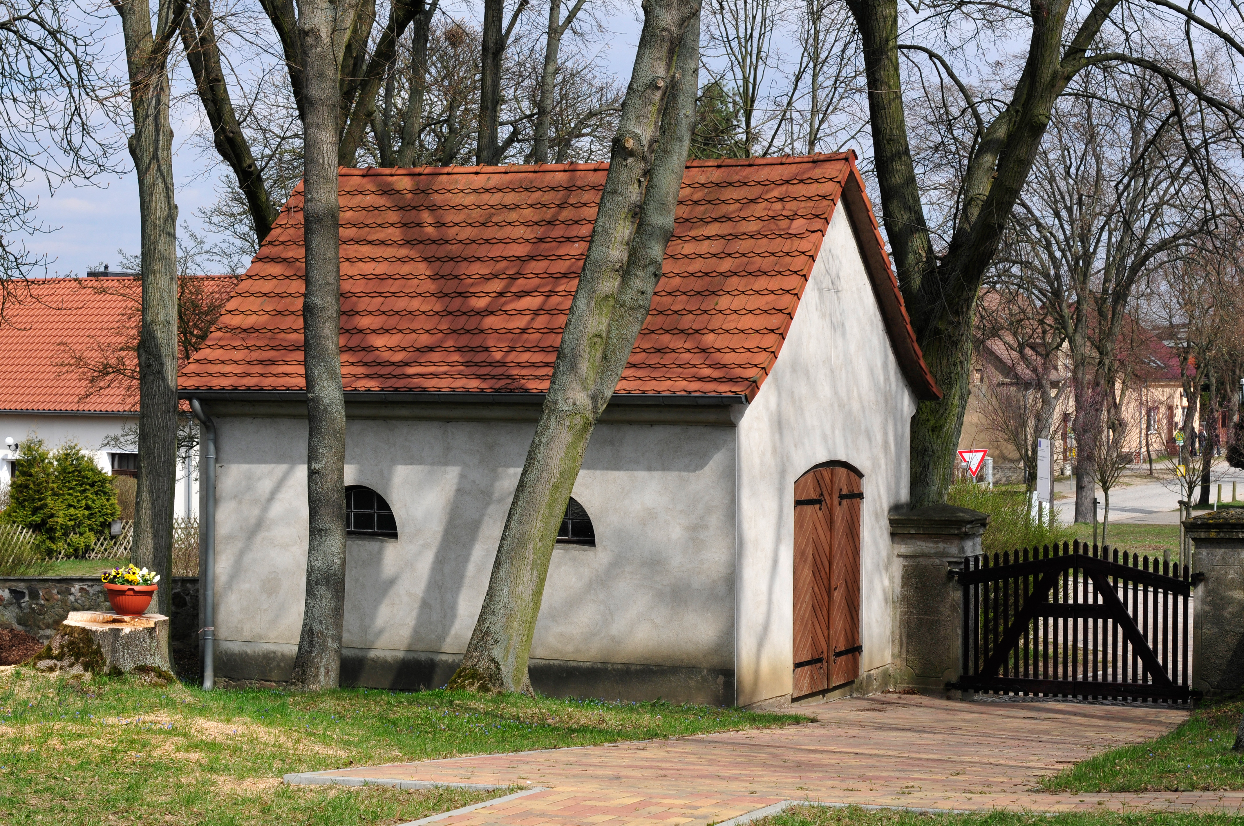 cementery and church in Klein Ziethen, Barnim